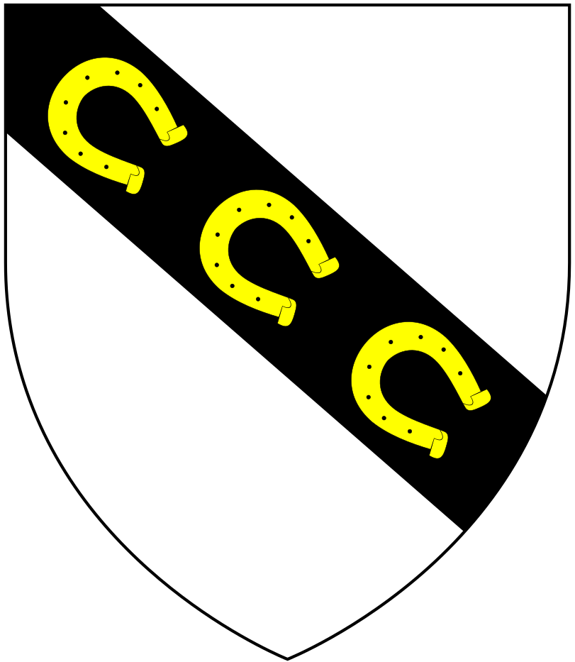 Canting arms of Ferrers of Bere Ferrers, Churston Ferrers, Fenyton, etc all in Devon: Argent, on a bend sable three horse-shoes or; The name was Latinized as de Ferariis, from the Latin noun ferrarius (from ferrum, "iron"), meaning an iron-worker or blacksmith (As seen in 16th century stained glass in Churston Ferrers Church. Pole, Sir William (d.1635), Collections Towards a Description of the County of Devon, Sir John-William de la Pole (ed.), London, 1791, p.482, where tinctures of field and horse-shoes are reversed)